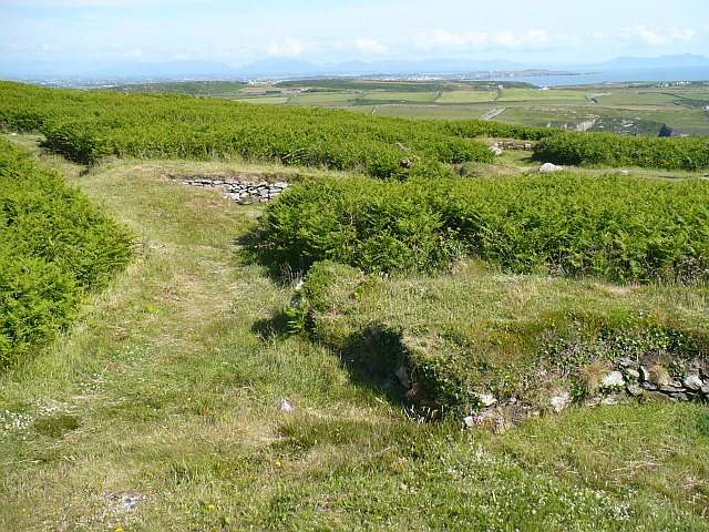 Ty Mawr hut group A general view of part of this 4000 year old settlement that has about twenty dry-stone-built huts and associated field systems. The mountains of Snowdonia and the Llyn Peninsula can be seen in the distance.